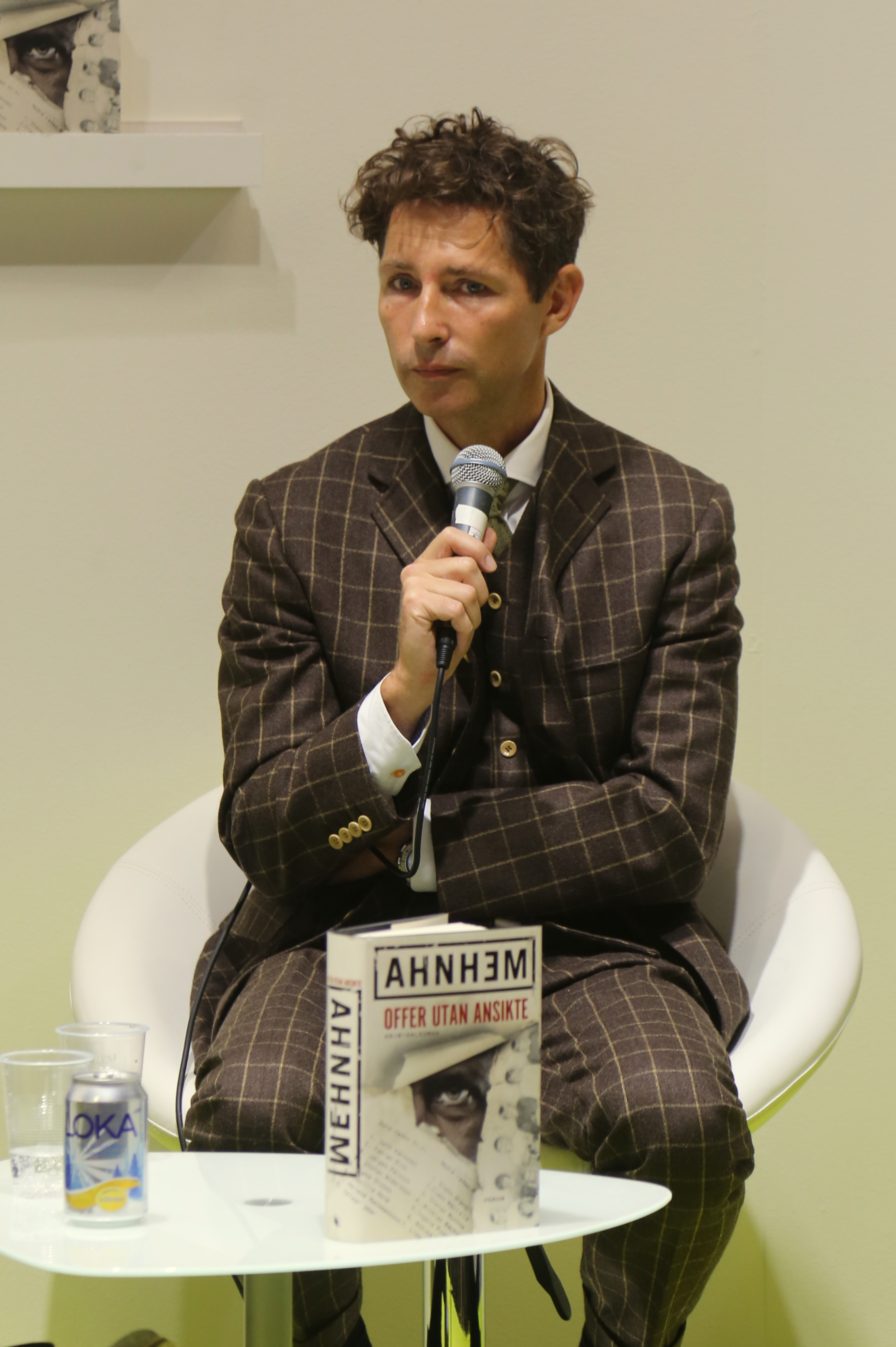 Stefan Ahnhem at the Gothenburg Book Fair 2014.